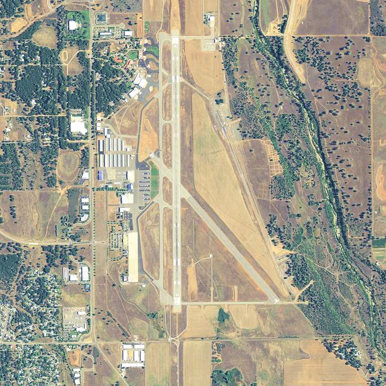 USGS digital orthophoto of Redding Municipal Airport in California